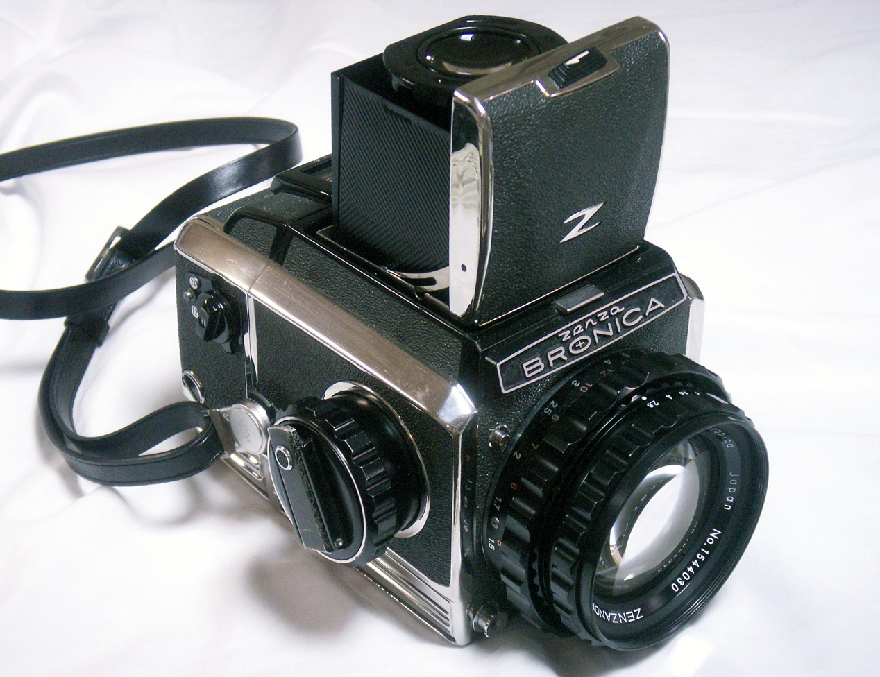 Zenza BRONICA S2 with ZENZANON 100mm F2.8